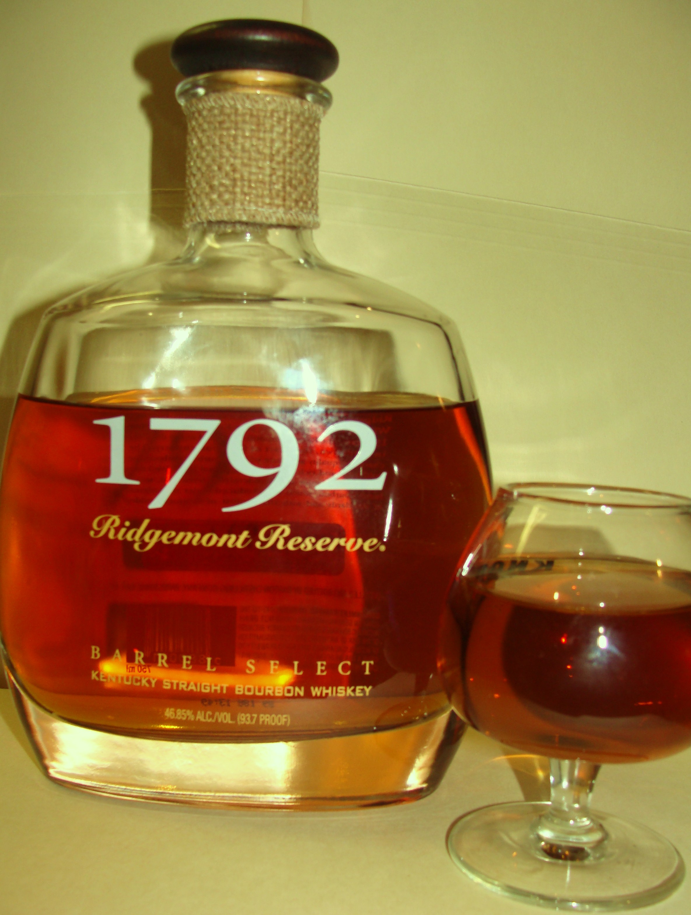 1792 Ridgemont Reserve